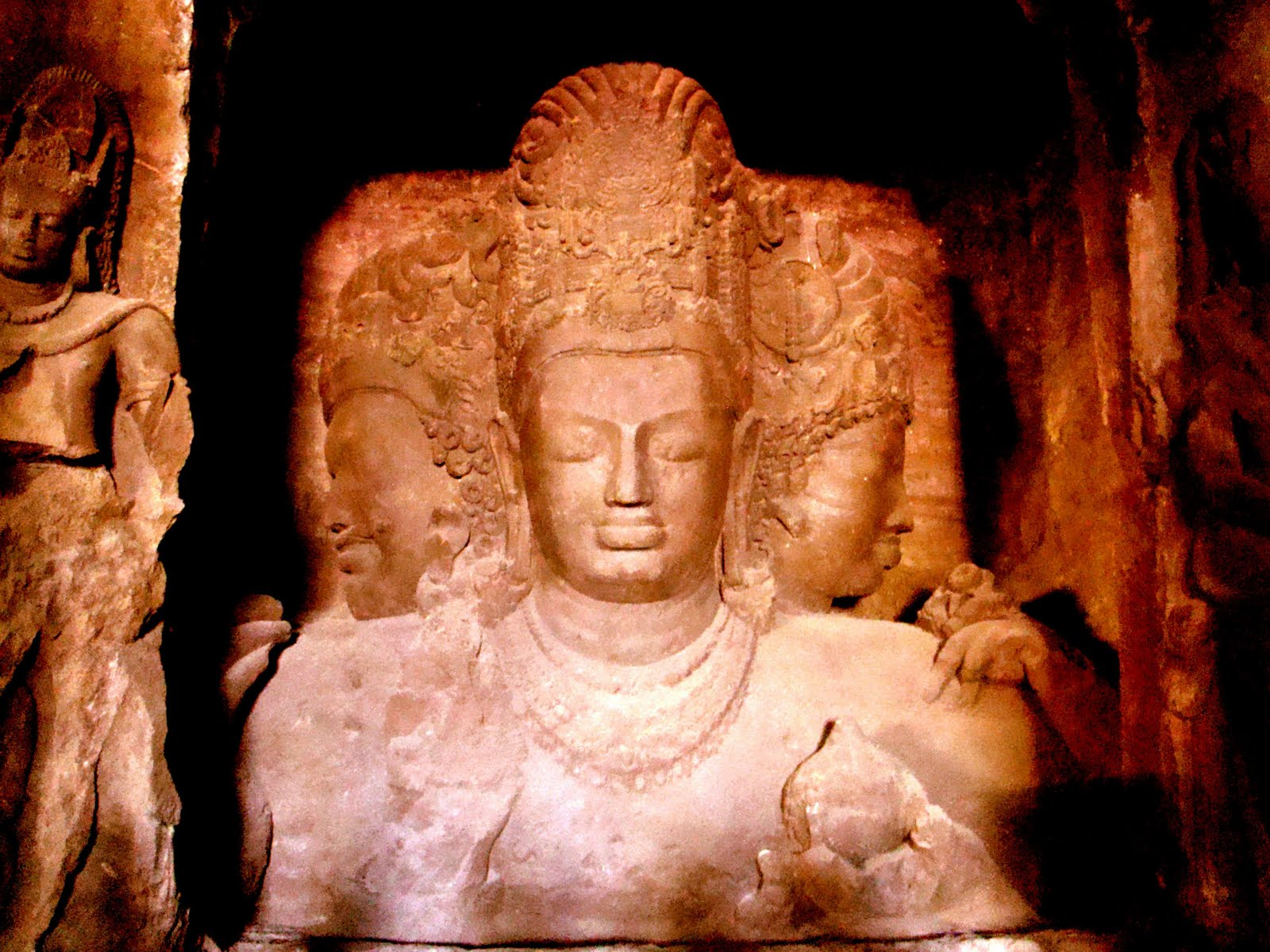 The most well-known is the six metre high Trimurti, showing Siva in the three roles of creator, preserver and destroyer. This sculpture is supposed to be one of the centerpieces of the Indian sculptural tradition.